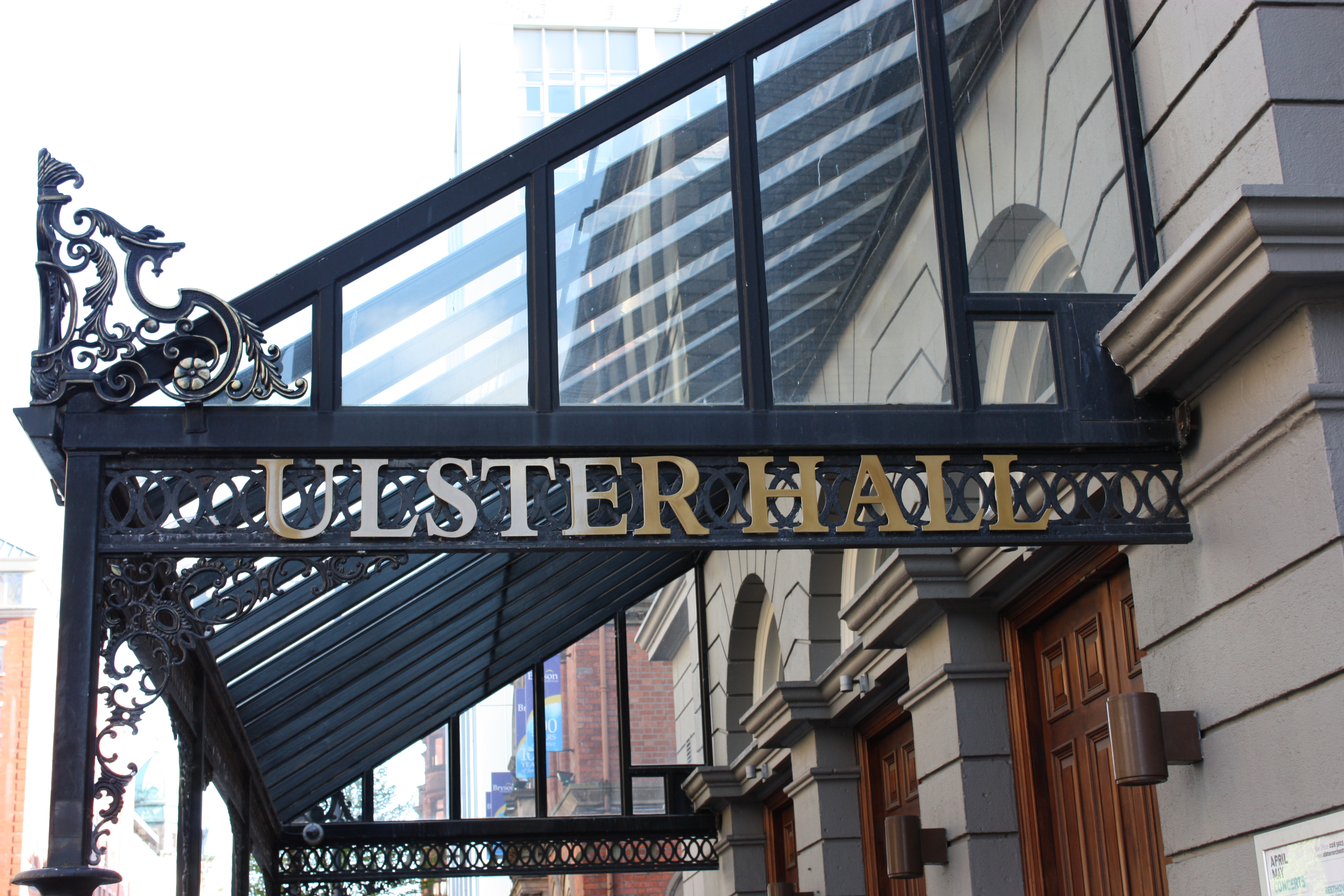 Ulster Hall, Bedford Street, Belfast, Northern Ireland, May 2010